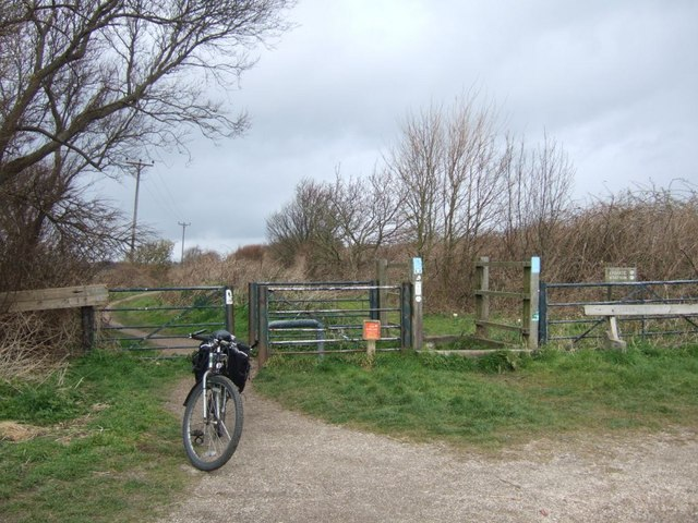 Trans-Pennine Trail TPT heads north from car park by Gore House Farm. This is the site of the Lydiate station on the Cheshire Lines railway.